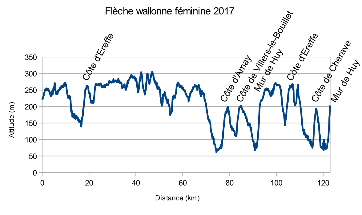 Profile of the Flèche wallonne féminine 2017.